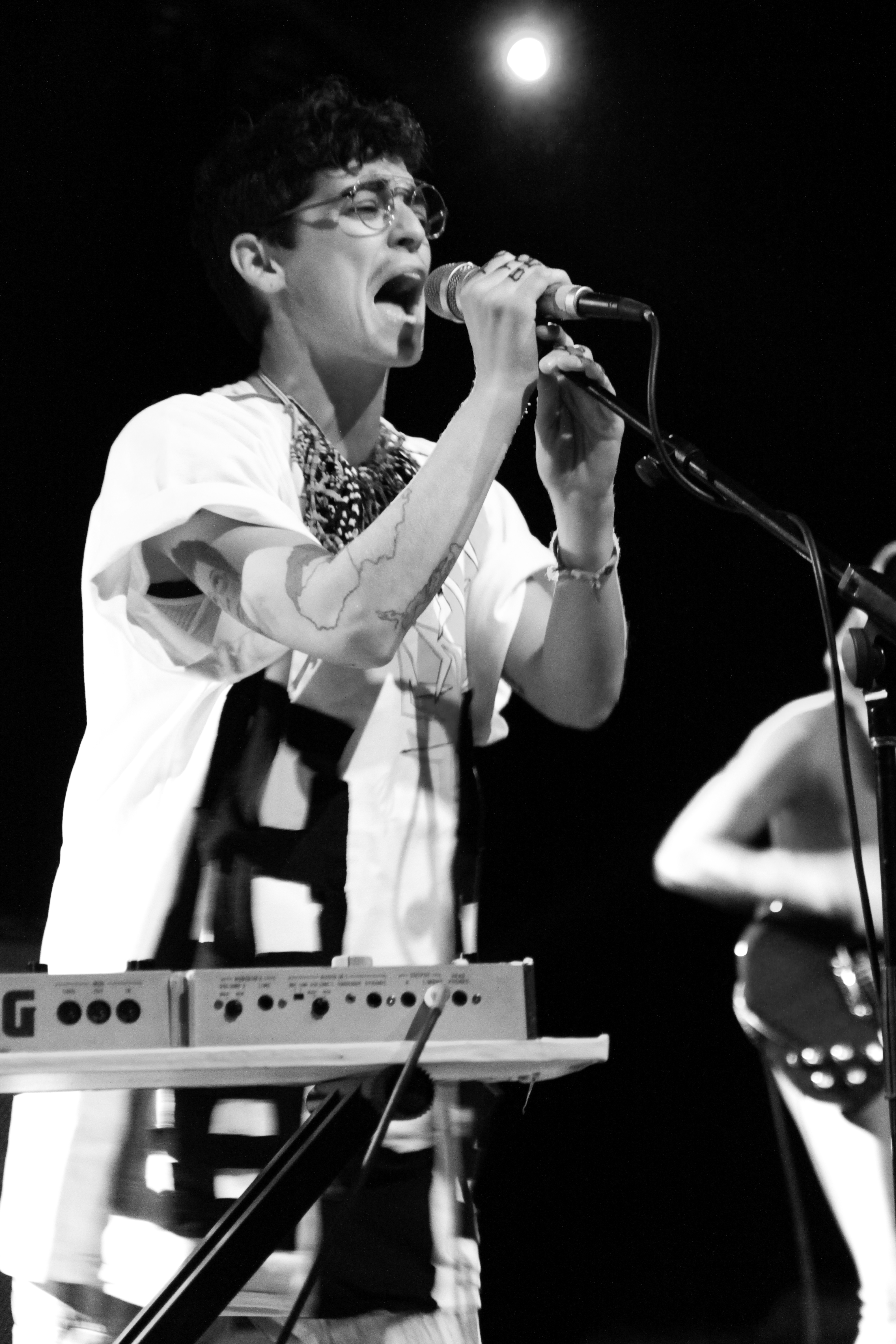 Samson performing at the Commodore Ballroom with MEN